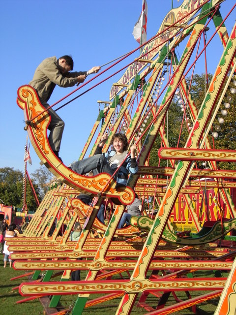 Carter's Steam Fair, Prospect Park This pair appear to be enjoying themselves on the swing boats.